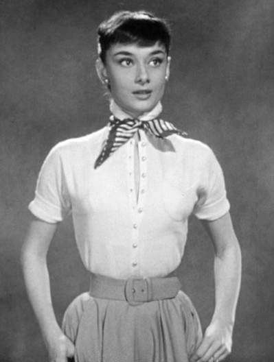 Cropped screenshot of Audrey Hepburn from the trailer for the film Roman Holiday.